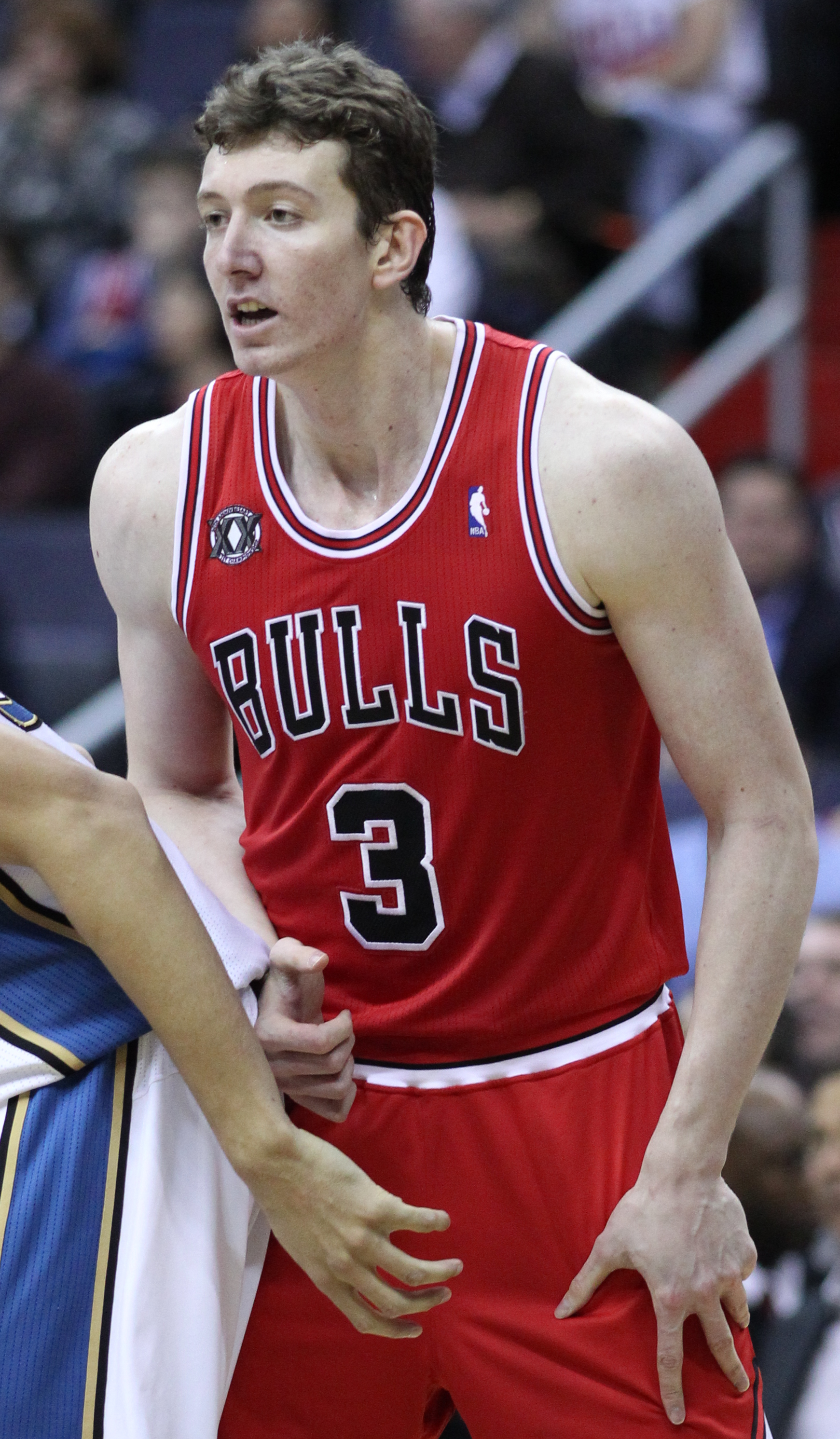 Wizards v/s Bulls 02/28/11